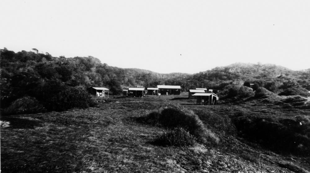 Buildings at Happy Valley, Fraser Island, circa 1935